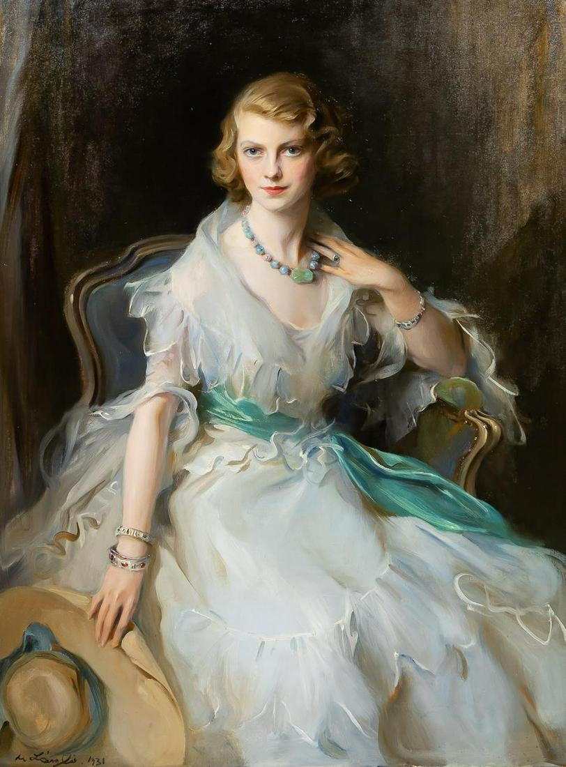 The Honourable Mrs Philip Leyland Kindersley, née Oonagh Guinness, later Lady Oranmore and Browne